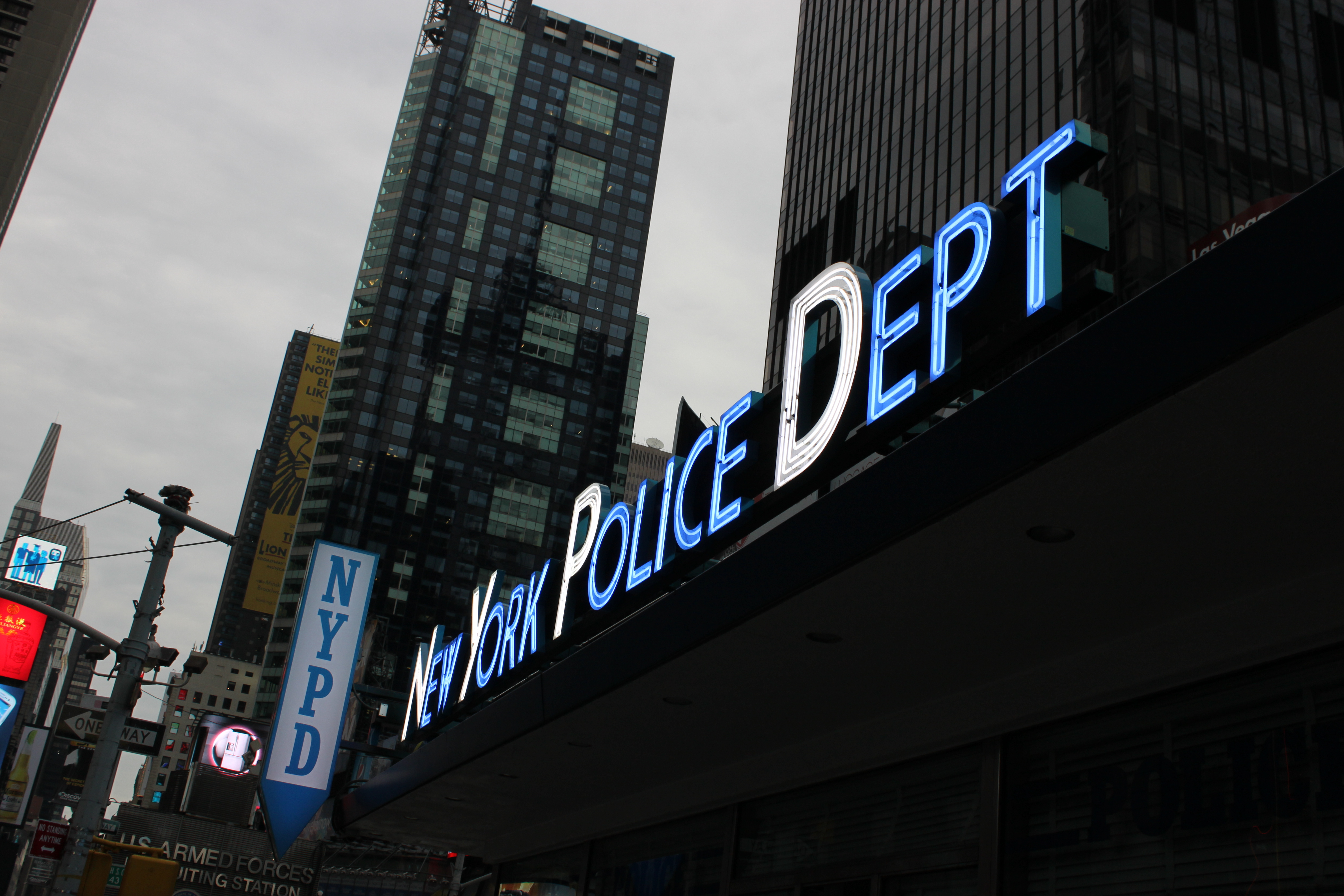 The sign of the New York Police Department at Times Square